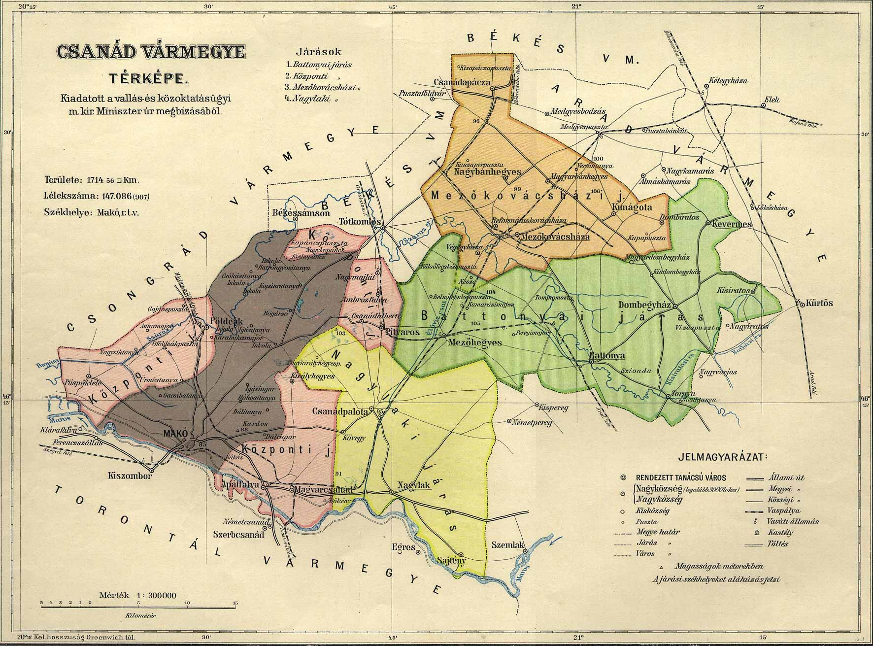 Administrative map of the county of Csanád in the Kingdom of Hungary